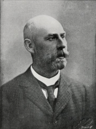 Matthew Barnett, of Barnett & Grant Bookmakers. Page 472 of the book.